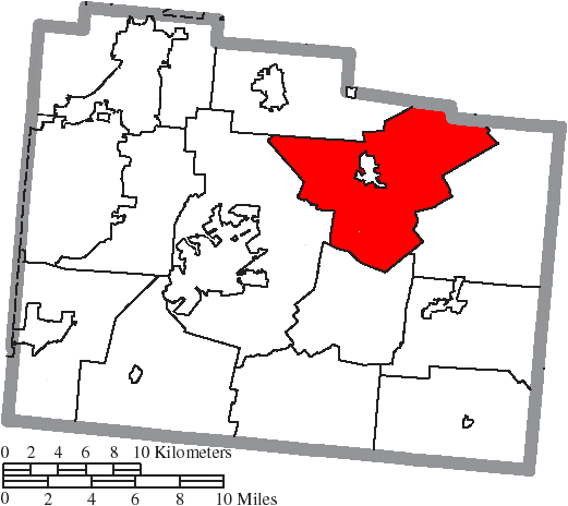 Map of the municipal and township boundaries of Greene County, Ohio, United States, as of the 2000 census, with the location of Cedarville Township highlighted. Township borders are shown only in unincorporated areas in order to differentiate incorporated and unincorporated areas more clearly.